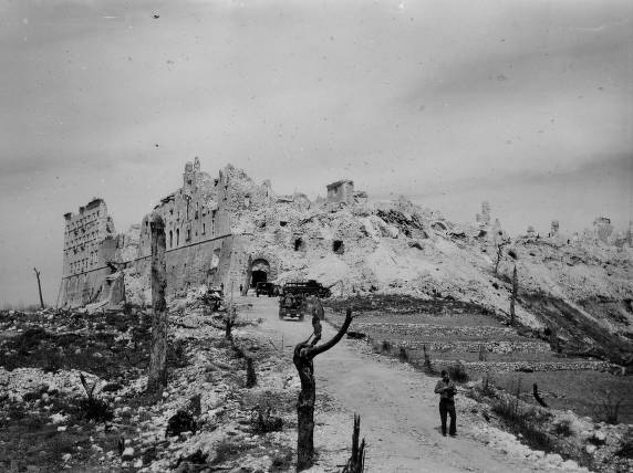 Title: Cassino (Italy) Creator: Davis, Frank J. (photographer) Date: 1944 Part Of : J. Davis World War II Photographs/mode/exact Place: Cassino, Italy Description: This photograph depicts the aftermath of the Battle of Monte Cassino. Physical Description: 1 photograph: 8.3 X 10.7 cm File: fd_0114.tif For more information and to view the image in high resolution, View the